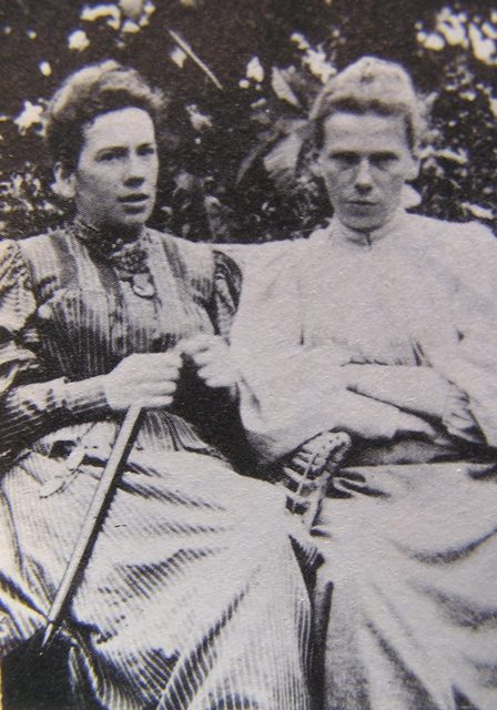 Tatyana and Mary, daughters of Leo Tolstoy